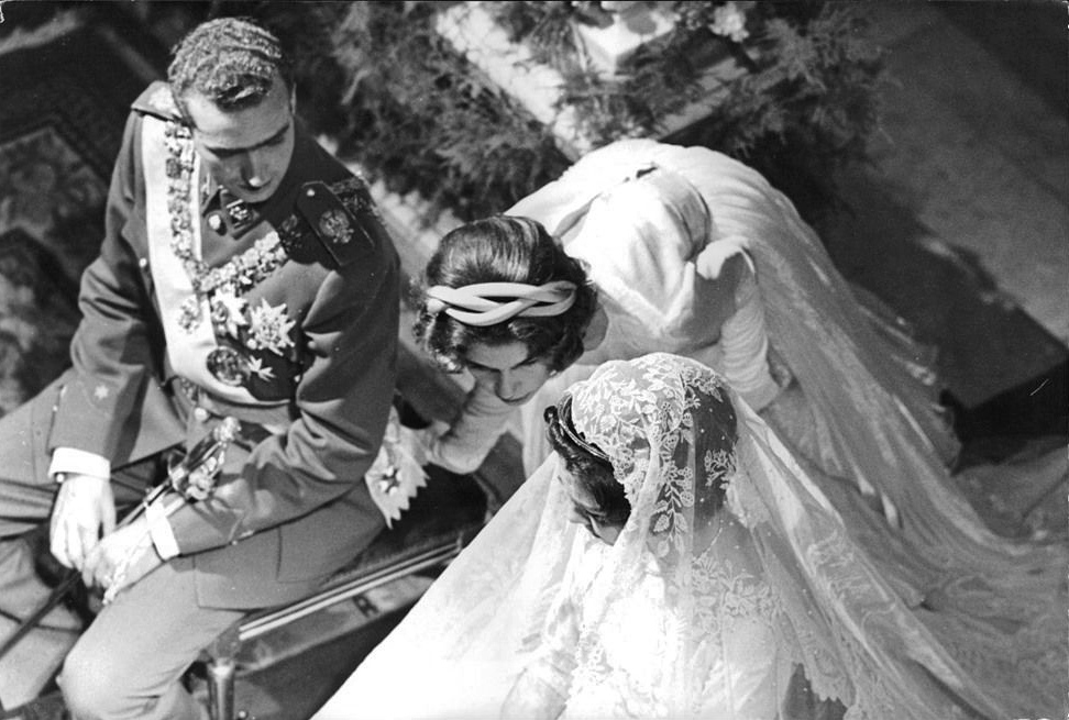 A photo of Prince Juan Carlos of Spain and Princess Sophia of Greece and Denmark sitting in their wedding ceremony rite.